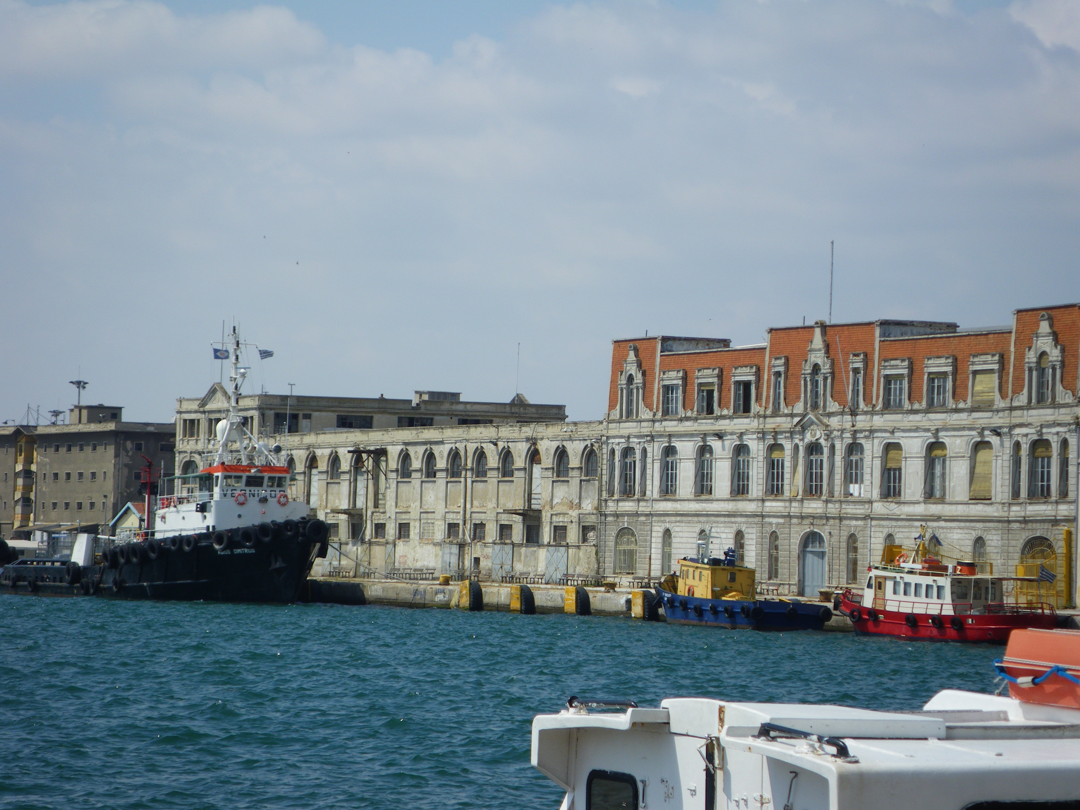 Passenger terminal, port of Thessaloniki